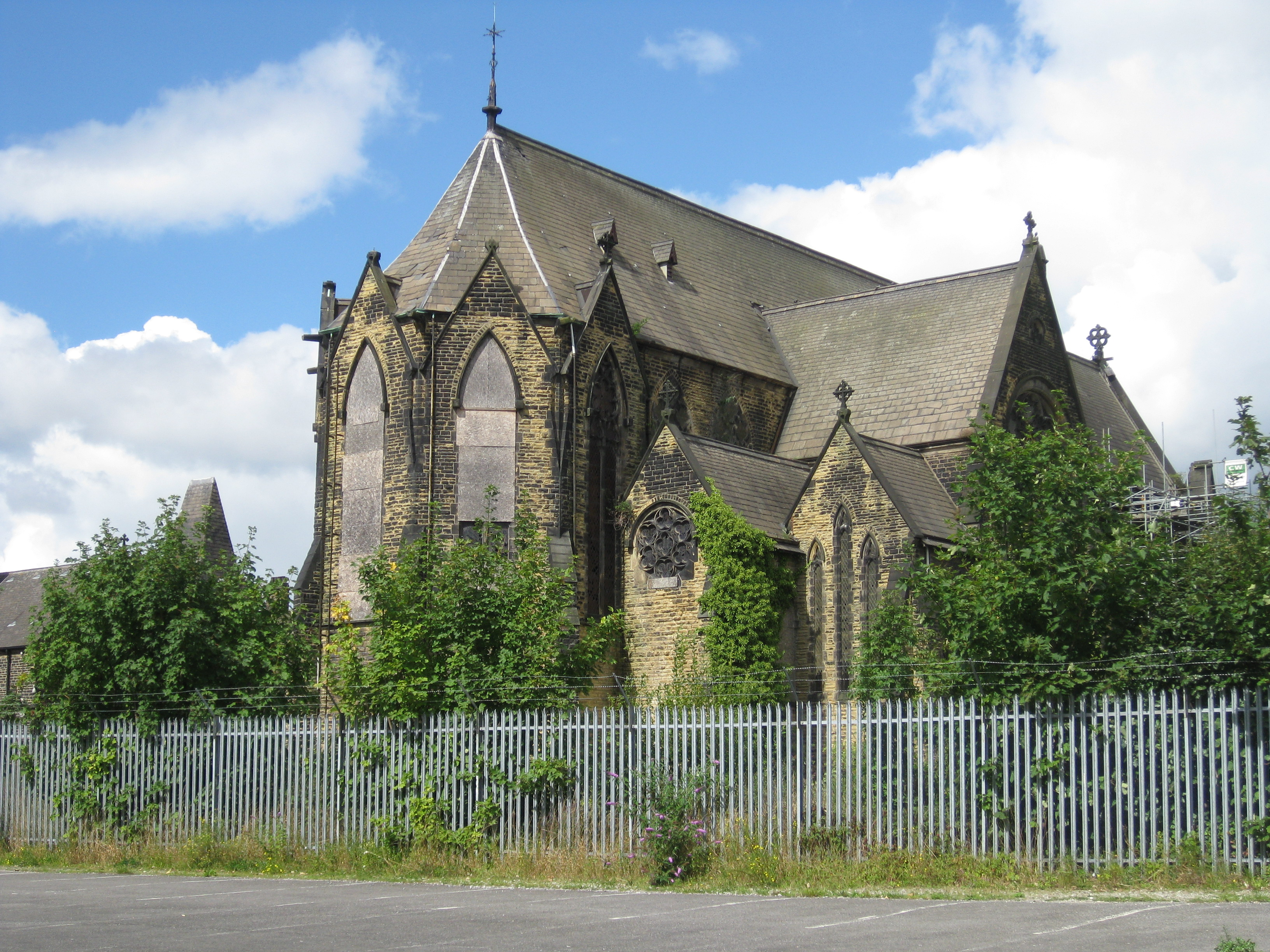 Mount St Mary's Church, Richmond Hill, Leeds. 1853. Roman Catholic. No longer in use. East side.